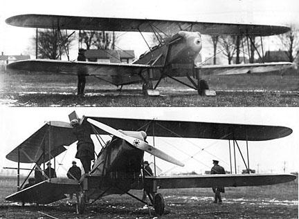 Buhl-Verville CW-3 Buhl CW-3 OX5 Year: 1925, 3 passenger, open cockpit, biplane, 90hp Curtiss OX-5, span: 35'0" length: 25'0" load: 770 lbs, v: 95/80/40 range: 475 miles. Alfred Verville. Folding wings. POP: 3